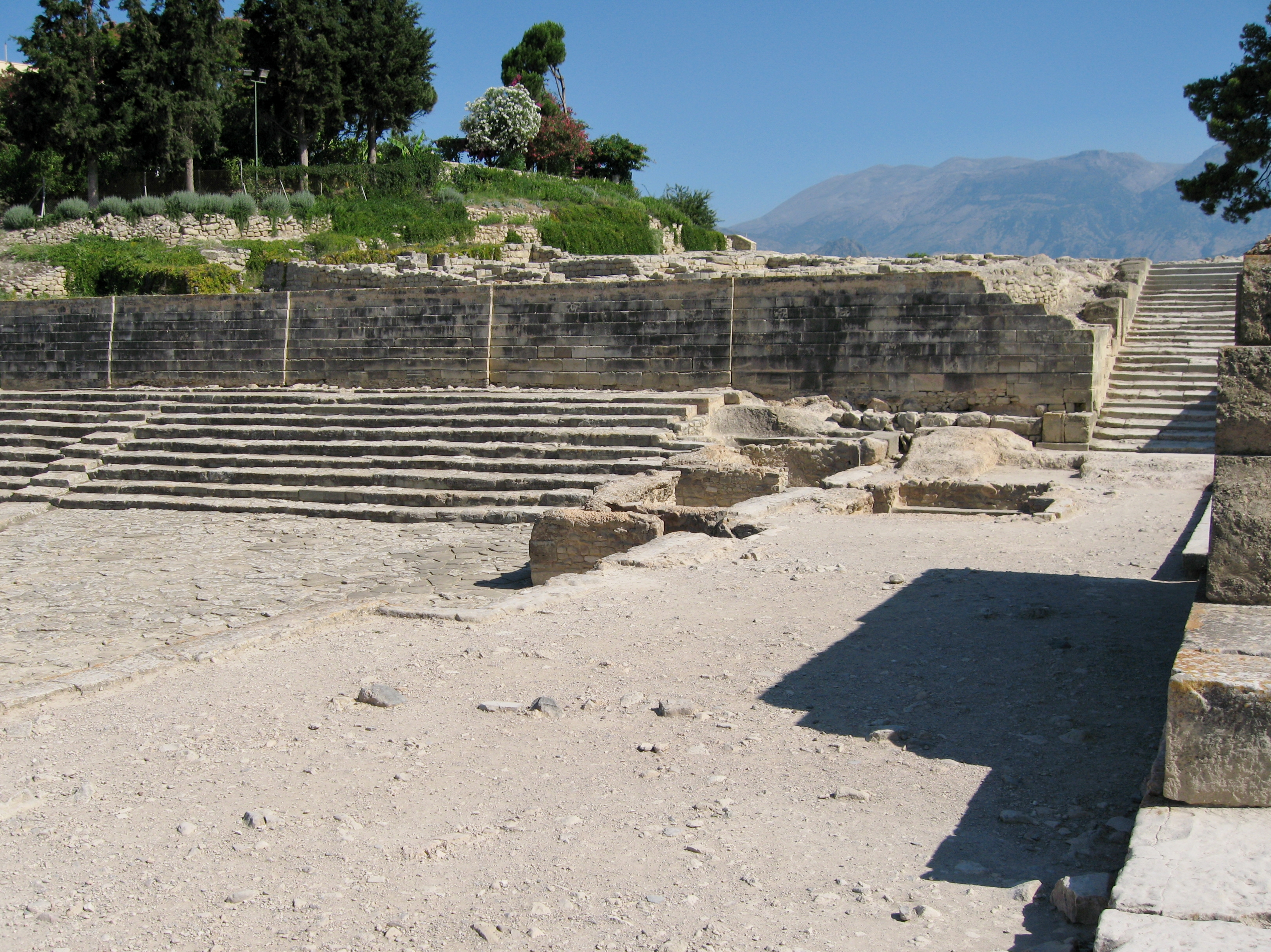 Phaistos, Crete, Greece